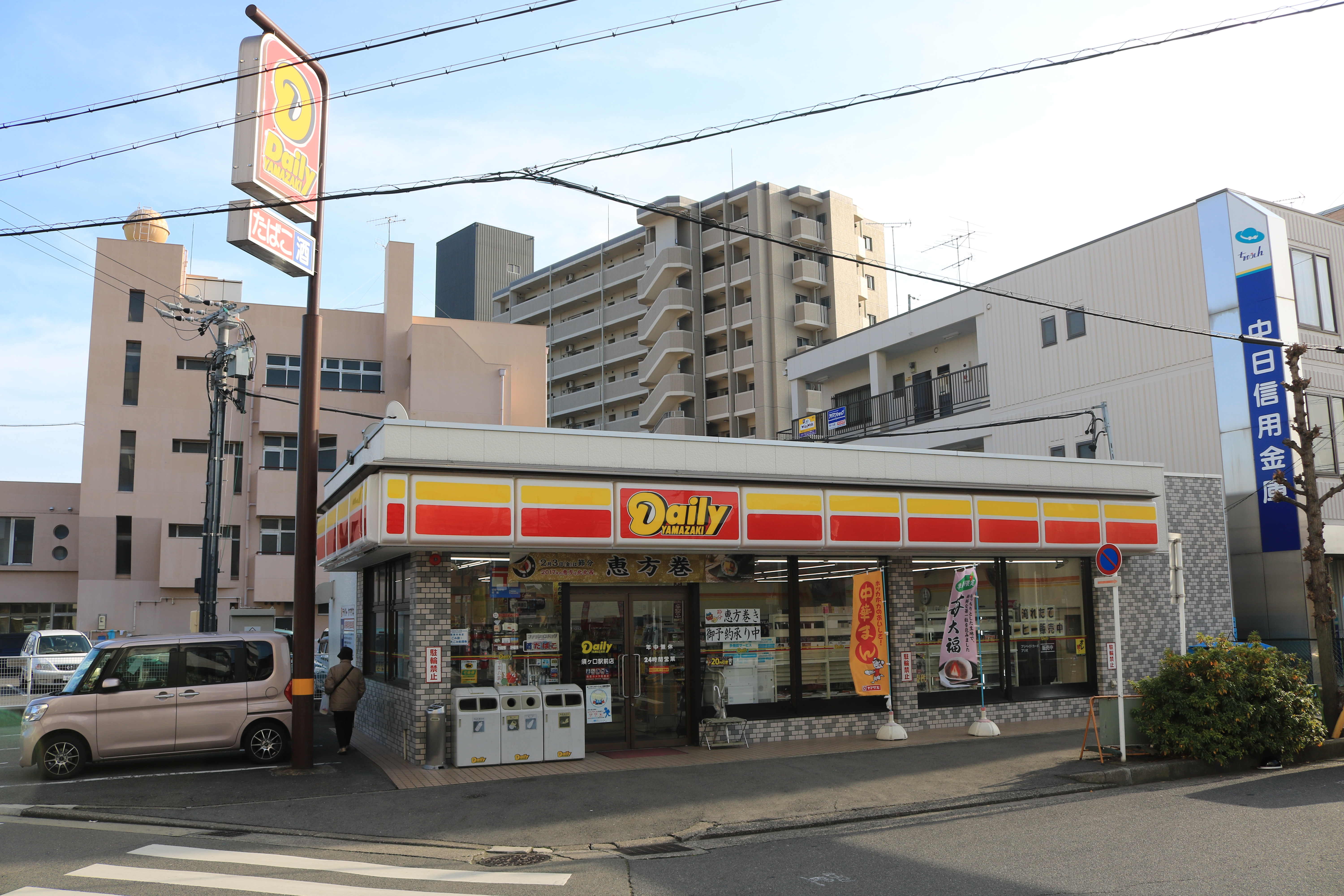 Daily Yamazaki and Chunichi Shinyokinko in Sukaguchi, Kiyosu, Aichi Prefecture, Japan.